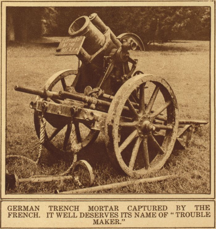 Photograph of captured German 17 cm Minenwerfer a/A (early short-barrel model of 1913) on its wheeled traveling carriage, World War I. The sign attached to the weapon indicates it has been captured by a Brigade of the RFA (British Royal Field Artillery) with the actual Brigade number erased, presumably by the military censor. Hence the caption below stating it was captured by the French can be disregarded.